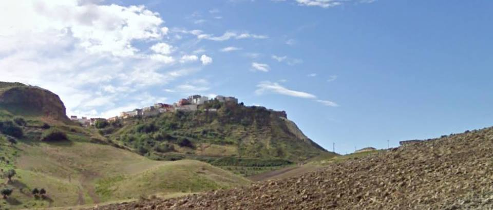 Strongoli north